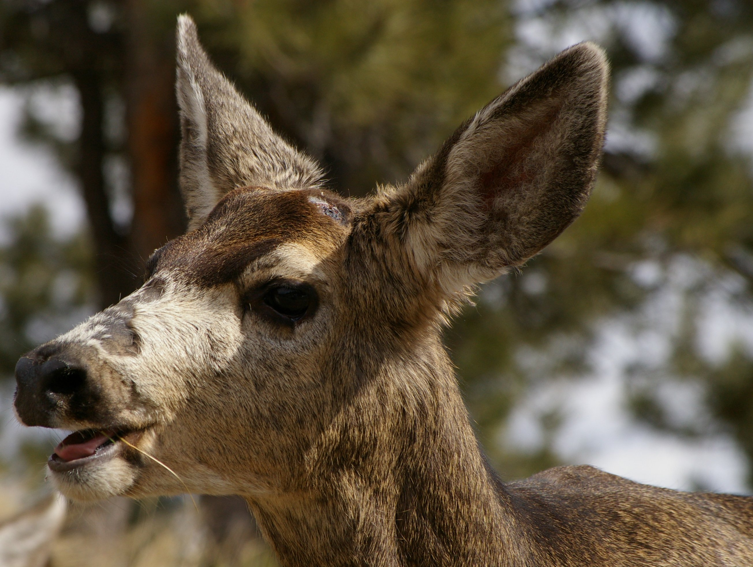 A close-up of a male Mule Deer that appears to have recently lost his antlers.